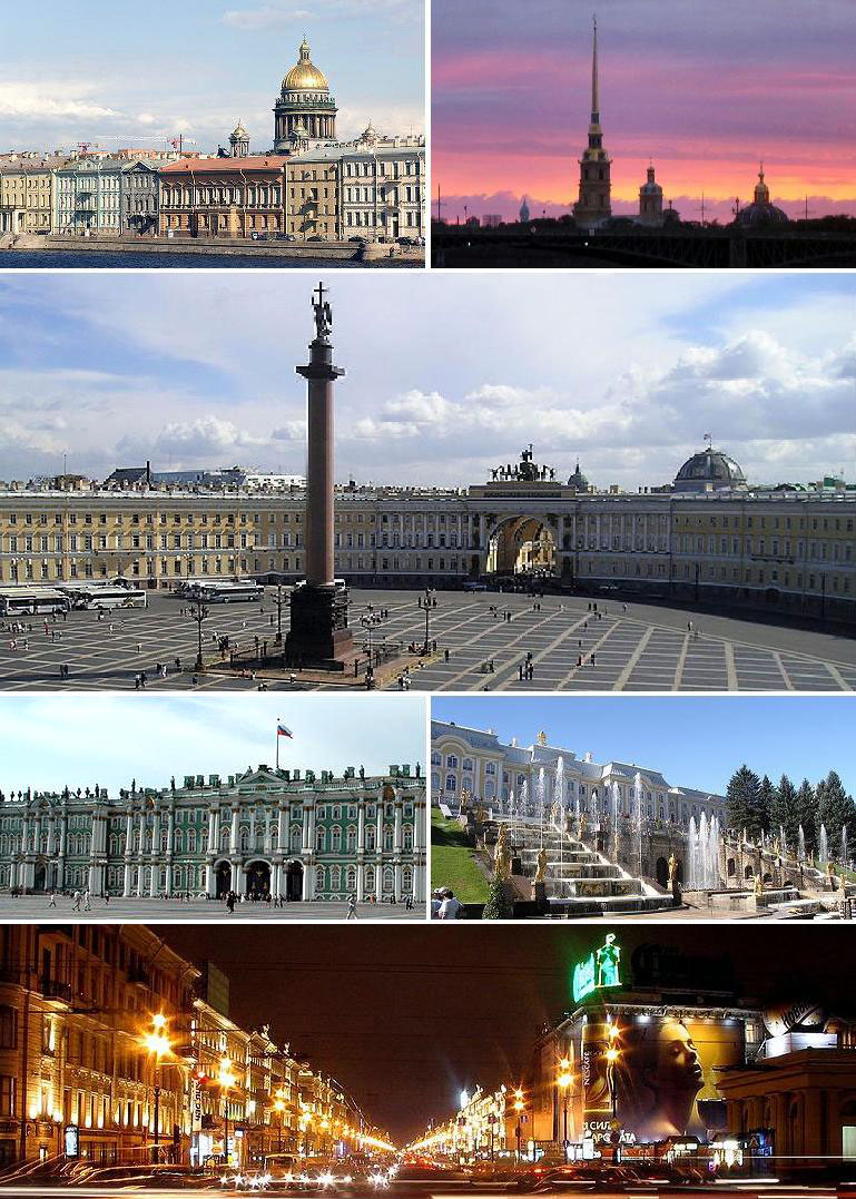 Saint-Petersburg collage